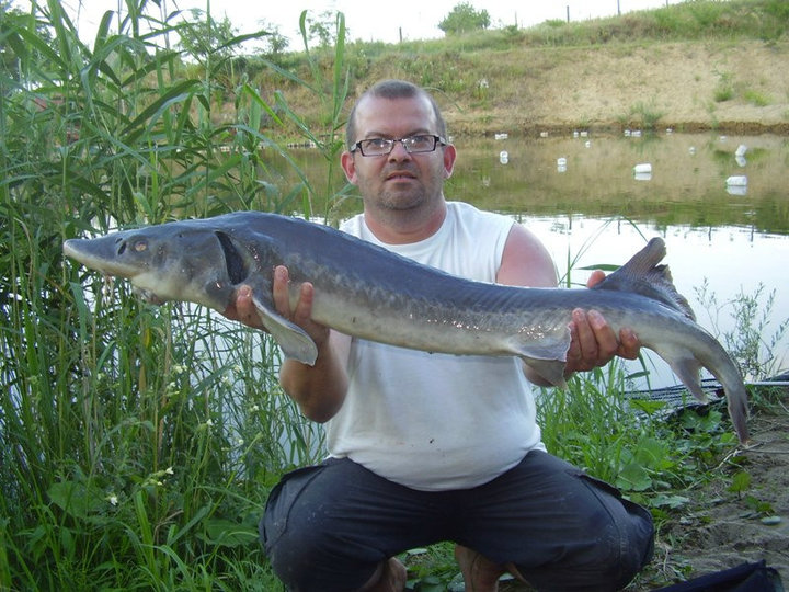 This is a Siberian sturgeon (Acipenser baerii) that was caught in Hungary. Weight: 5,38 kg.